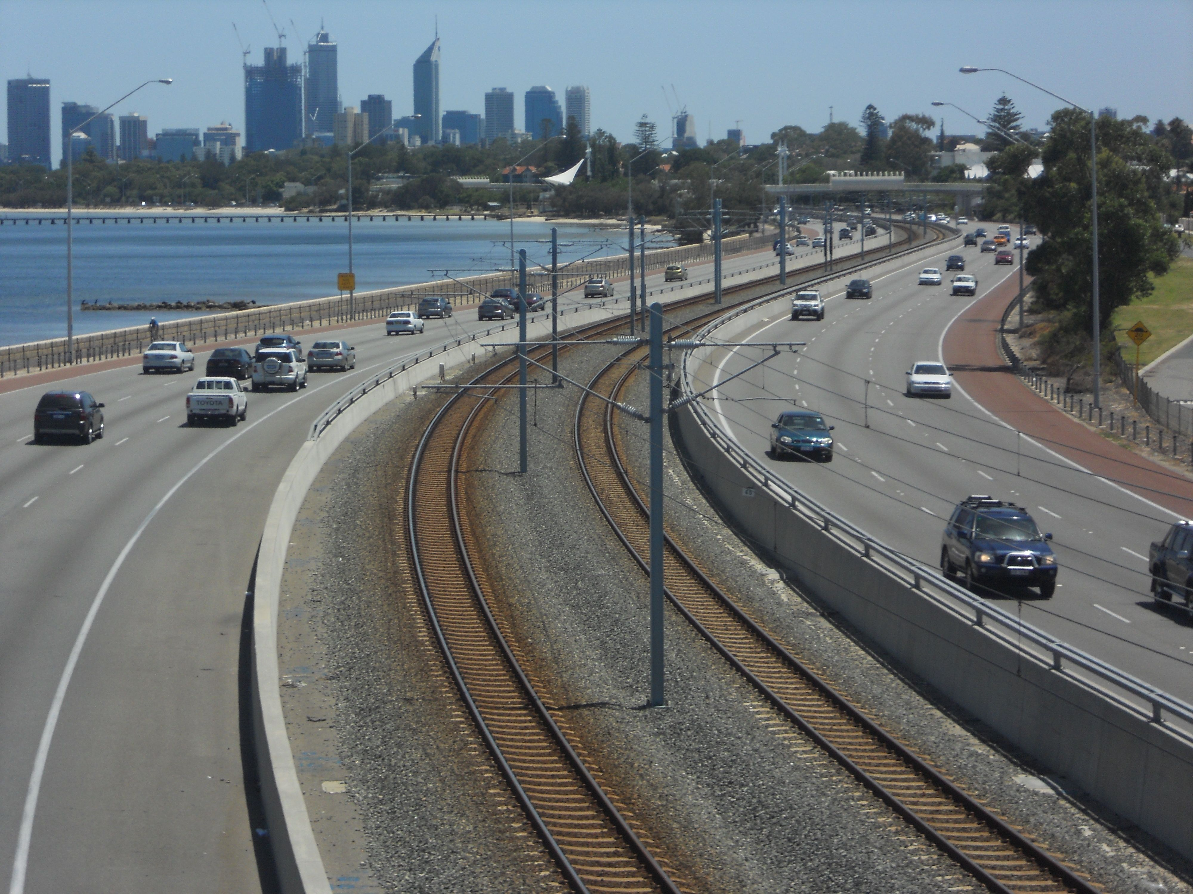 Kwinana Freeway, Mandurah railway, and Perth, Western Australia skyline from footbridge over freeway in Como, Western Australia